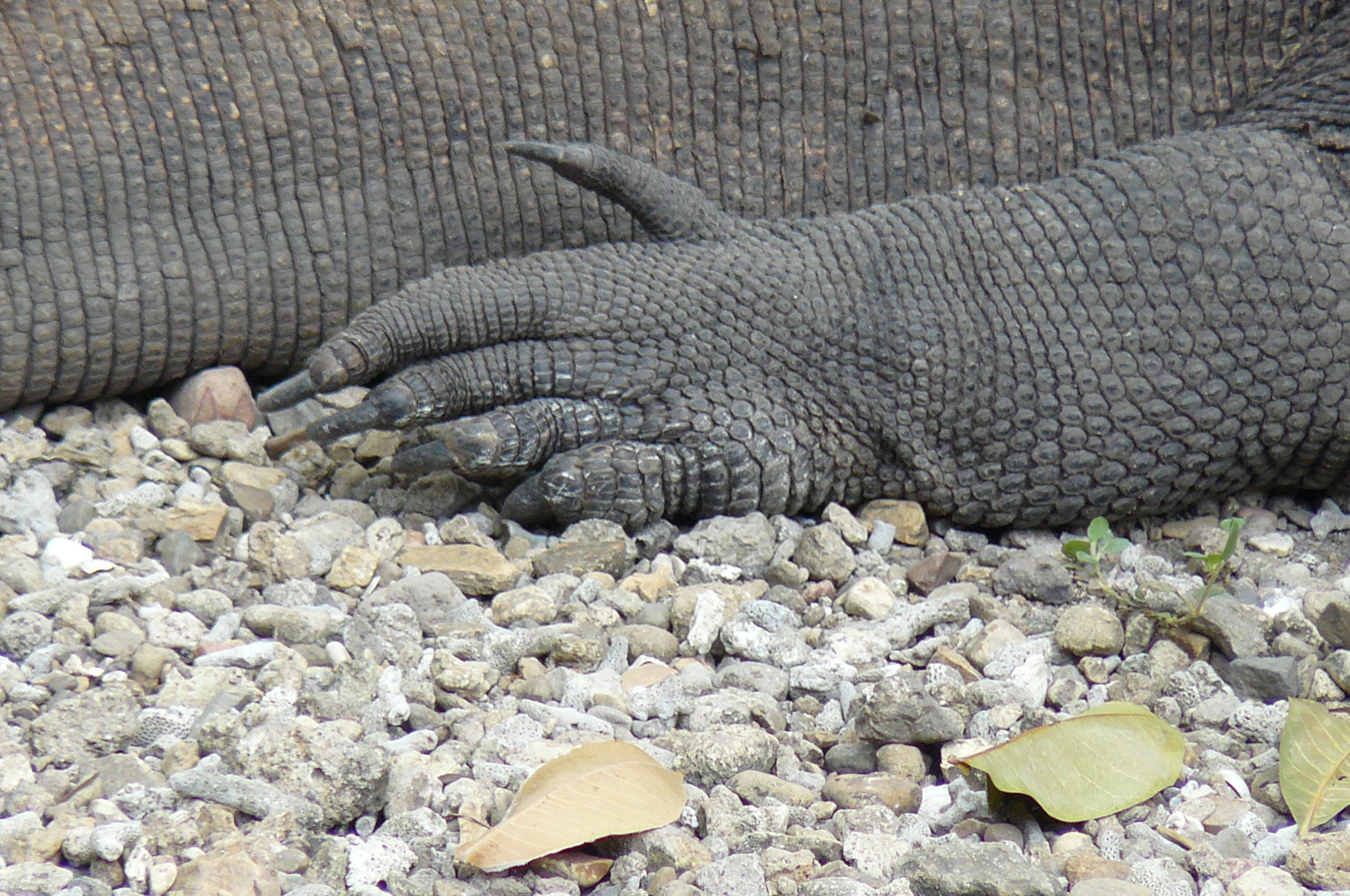 Sharp nails in Komodo's paw.